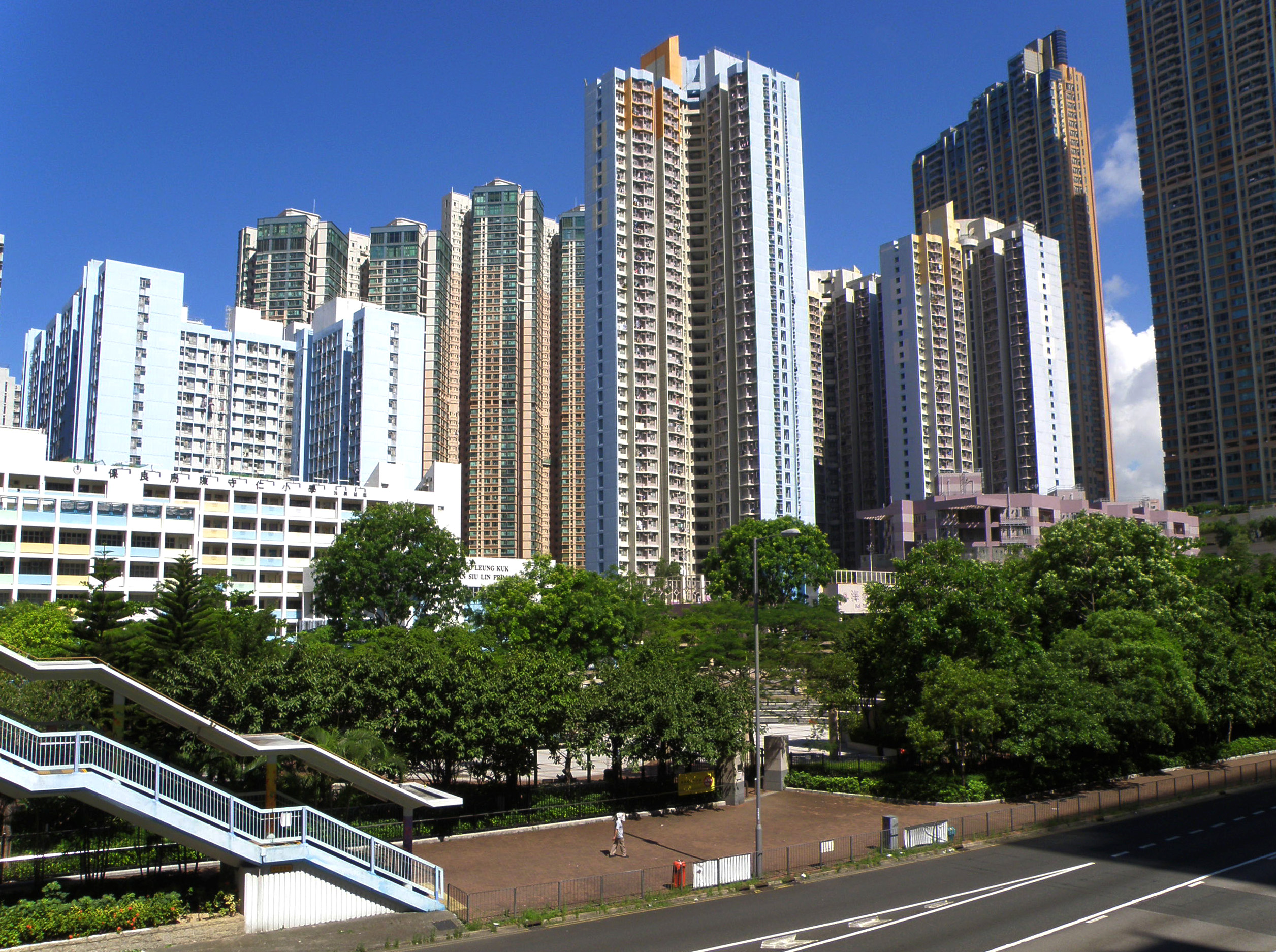 Hoi Fu Court in Mong Kok, Hong Kong.